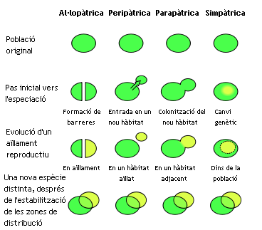 Geographic illustration of spatial aspects of speciation. Tags in Catalan